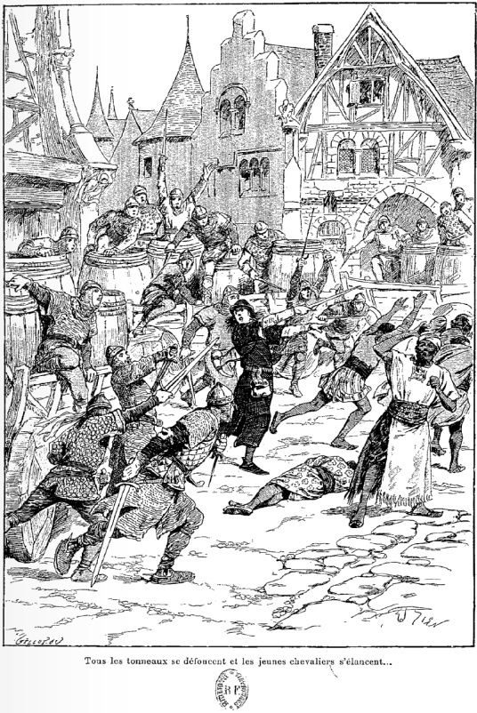 Image from french illustrator Édouard Zier of the Charroi de Nîmes, for the book "Futurs Chevaliers" ("Knights To Be") from Noemi Balleyguier